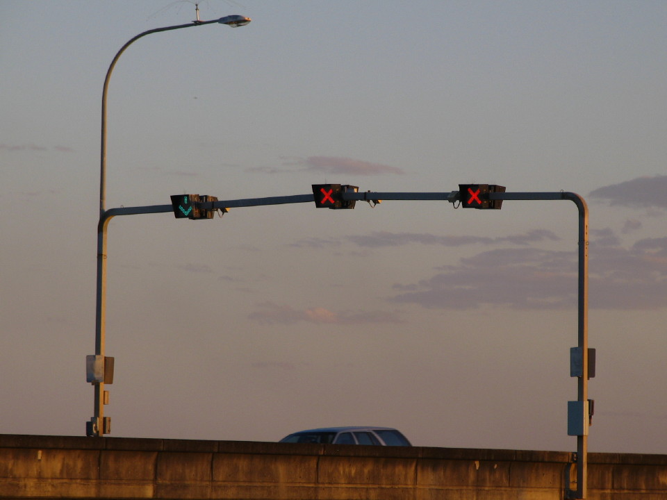 Houghton Highway tidal flow system in Queensland, Australia. Taken by self.